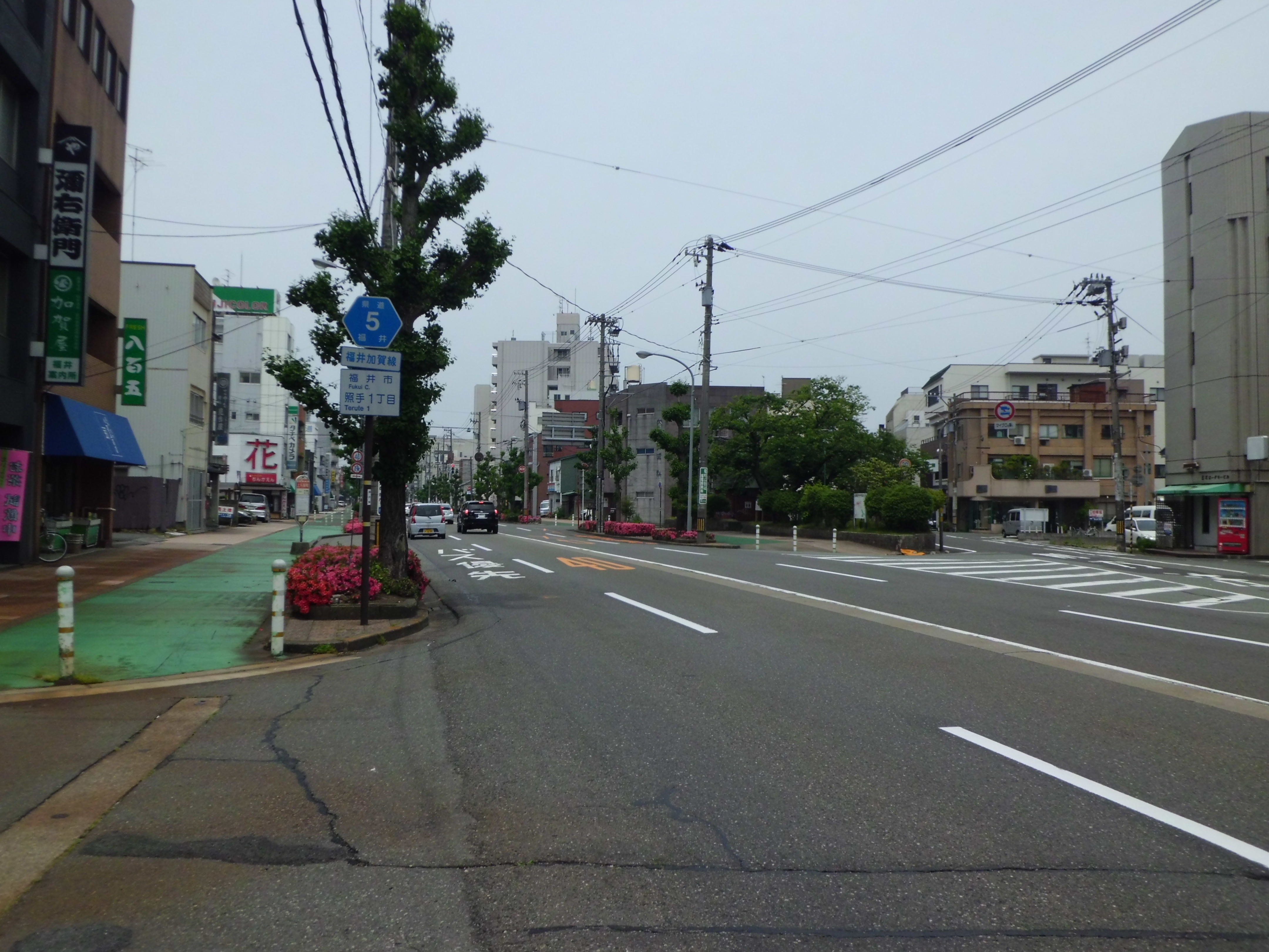 Fukui prefectural road 5 Fukui-Kaga line. Looking north from Tsukumobashi North intersection, Fukui city, Fukui prefecture.